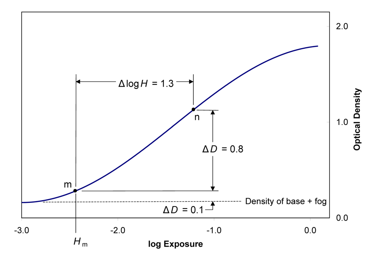 Graph of method of determining black-and-white film per ISO 6.